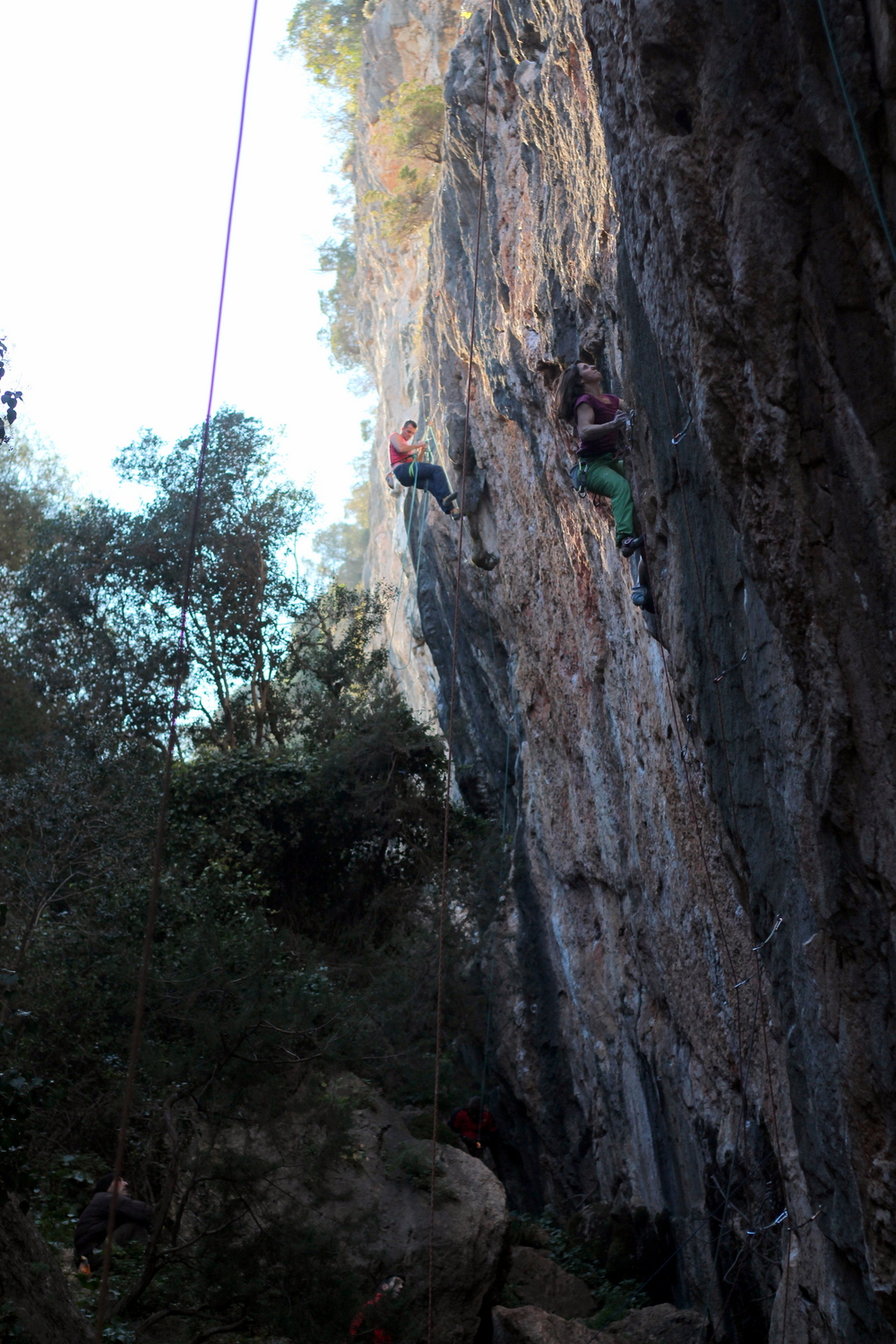 Climbing the "Fenda da Arrábida" in the Carallon sector.